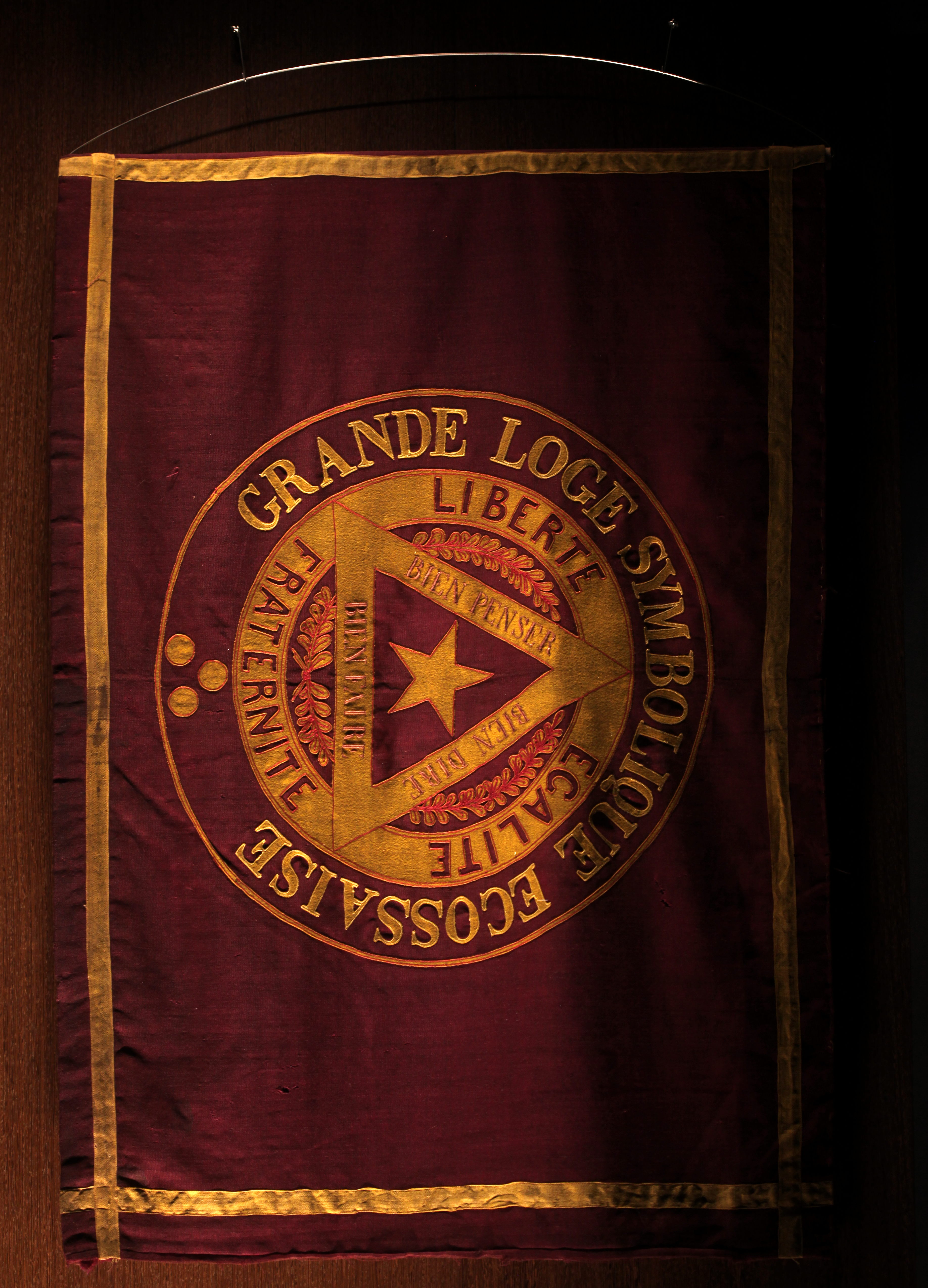 Banner of the Grande Loge symbolique écossaise